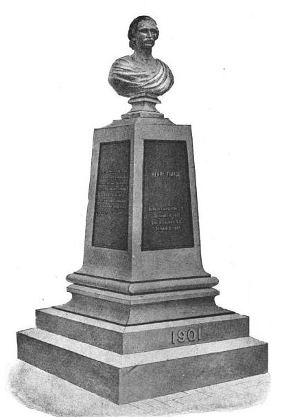 The memorial to Henry Timrod in Washington Park, Charleston, S.C.